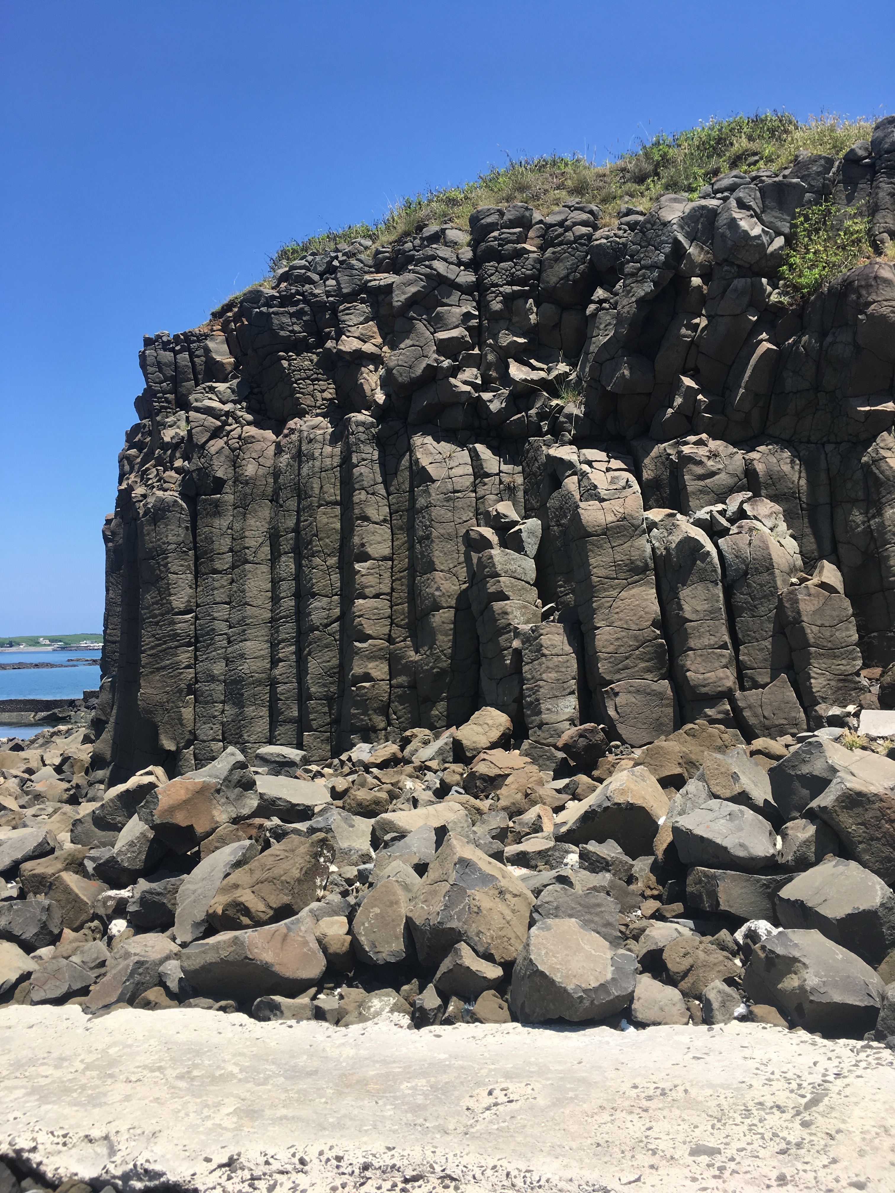 A miracle place in penghu.